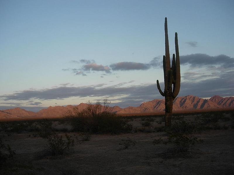 Cabeza Prieta National Wildlife Refuge, looking east towards the Growler Mountains.